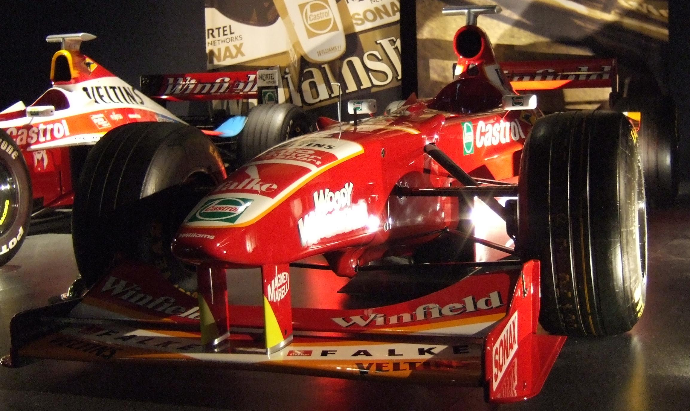 A Williams FW20 chassis.